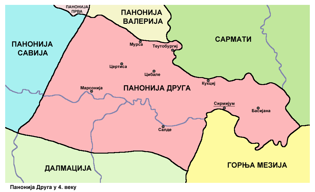 Historic map of Roman province Pannonia Secunda, 4th century.